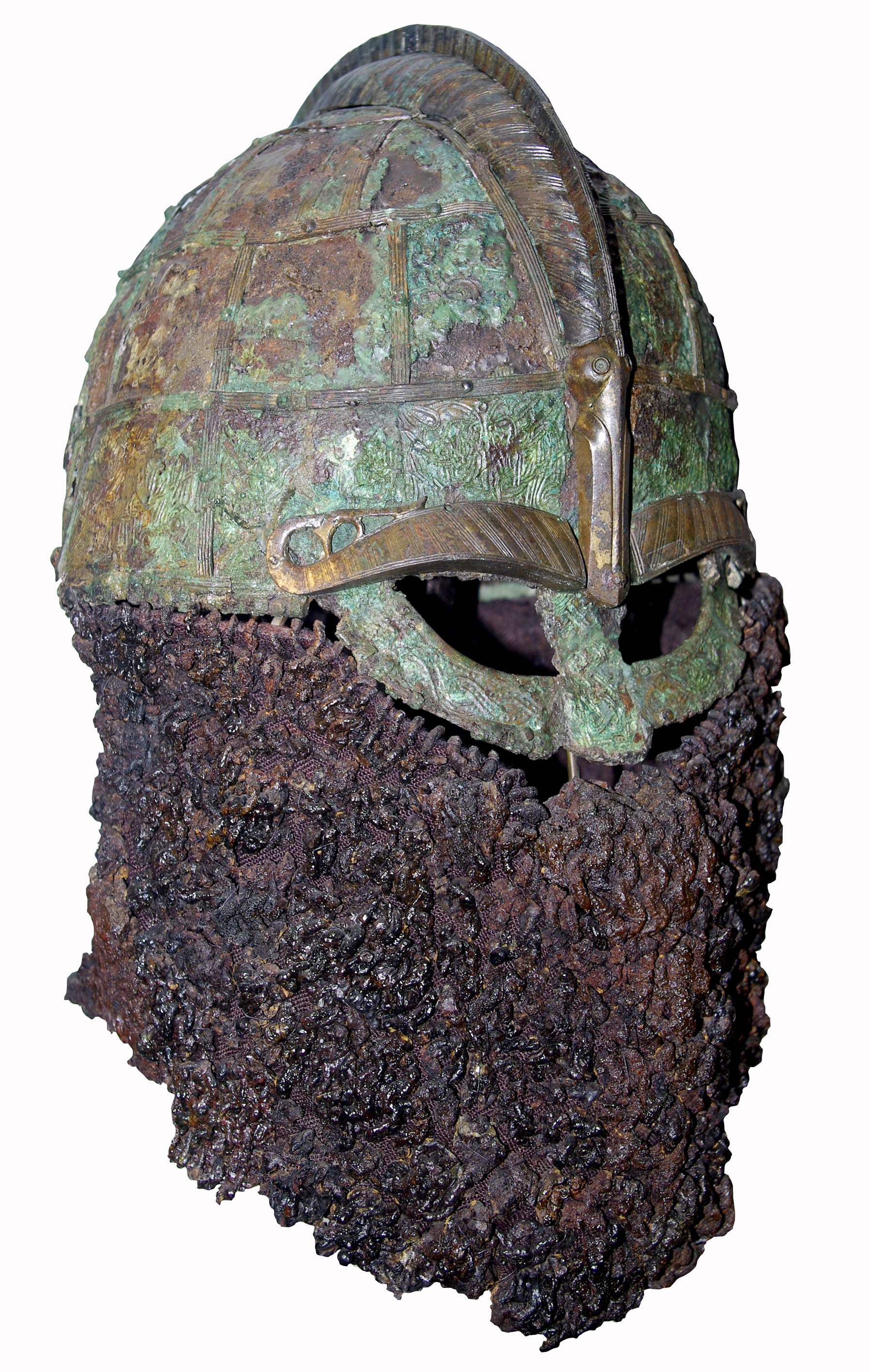 Findings from the graves from Valsgärde, Sweden.